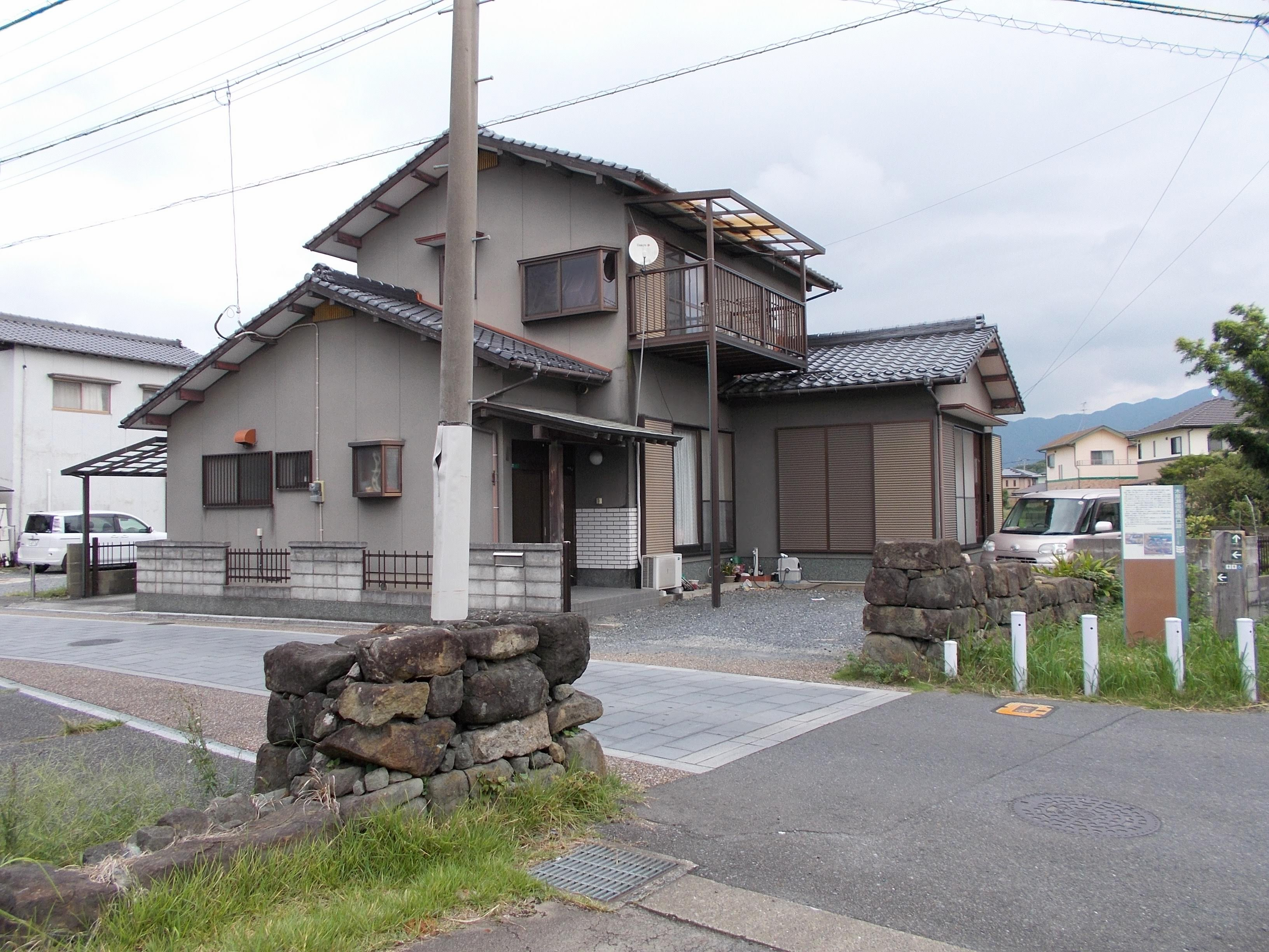 The site of Koyanose-juku West Gate on the Nagasaki Kaido, Yahatanishi-ku, Kitakyushu, Japan